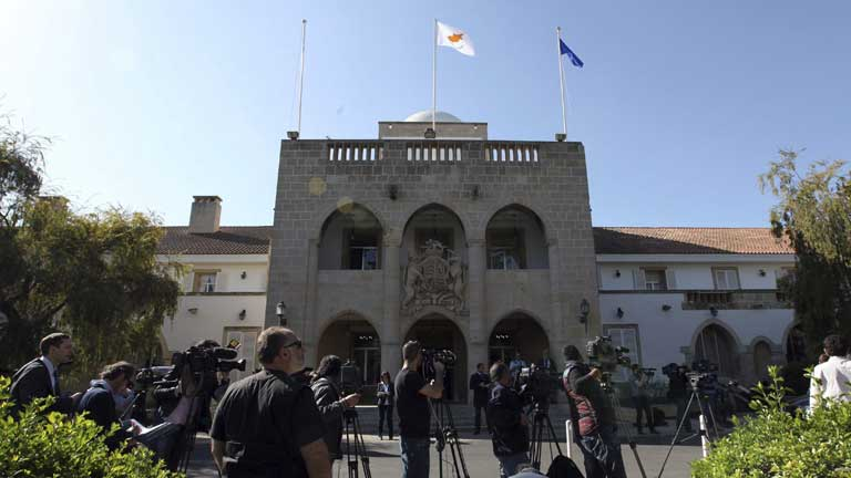 parlanet cyprus 2013